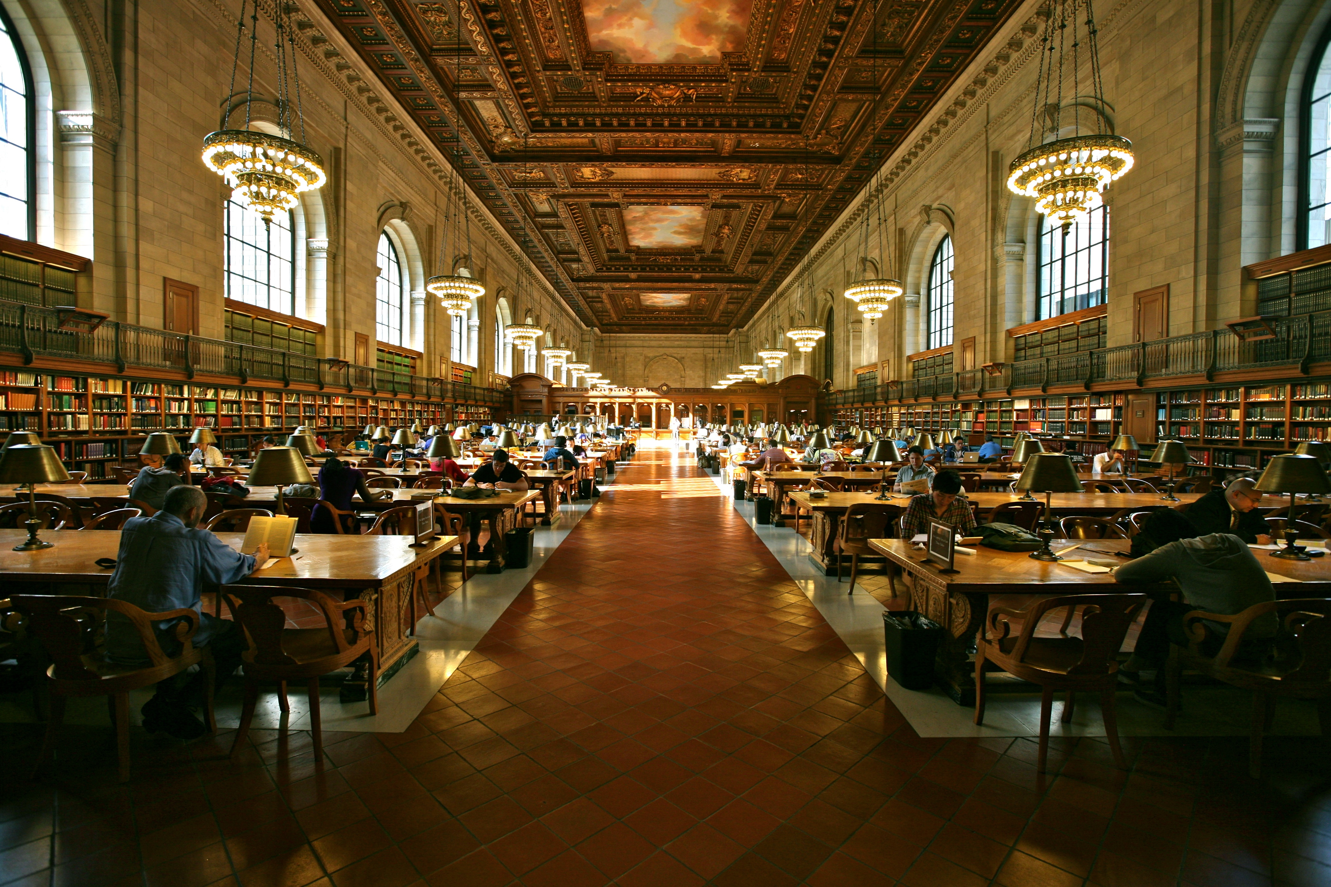 Grand Study Hall, New York Public Library